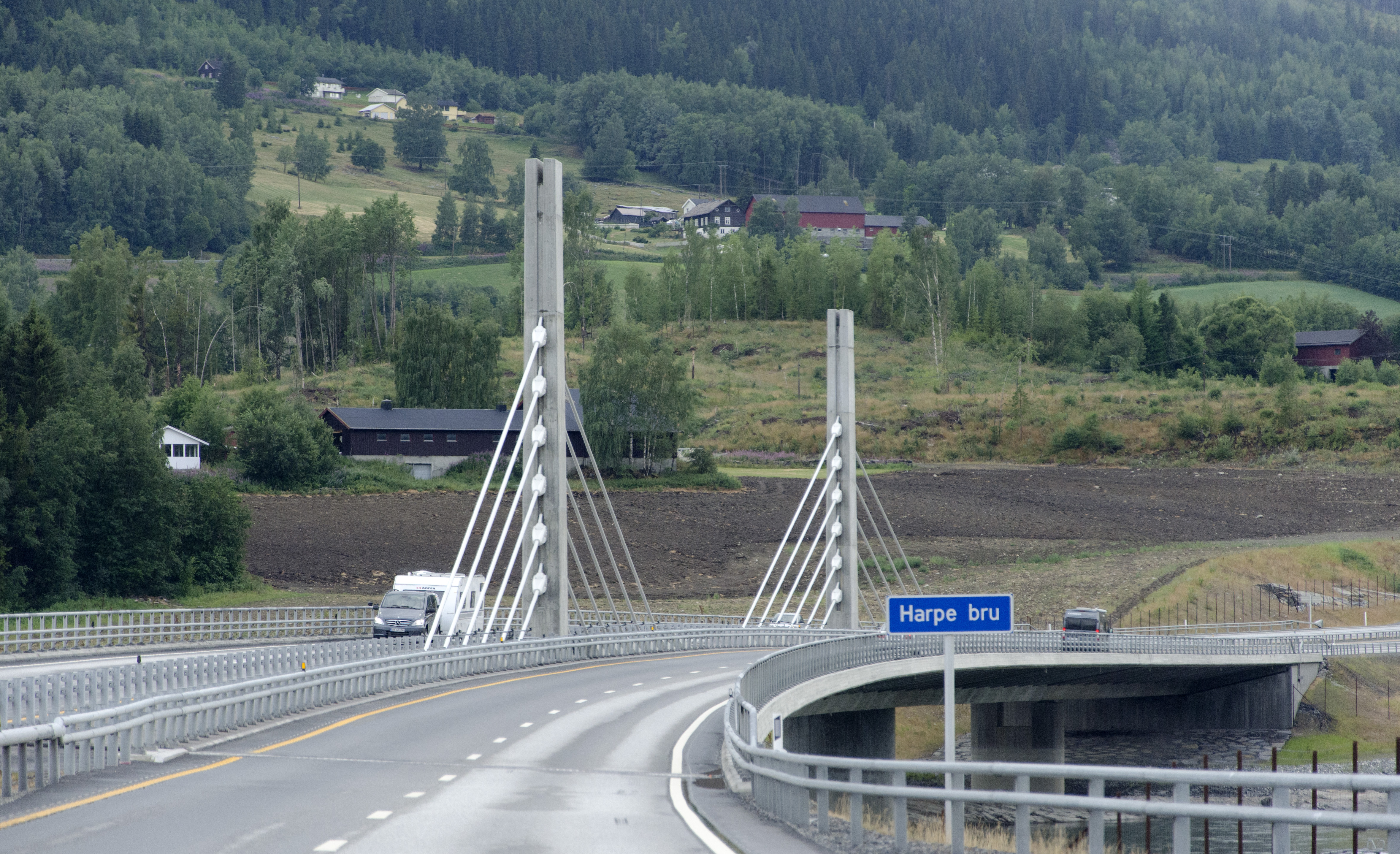 Harpe bridge, E6, Oppland, Norway